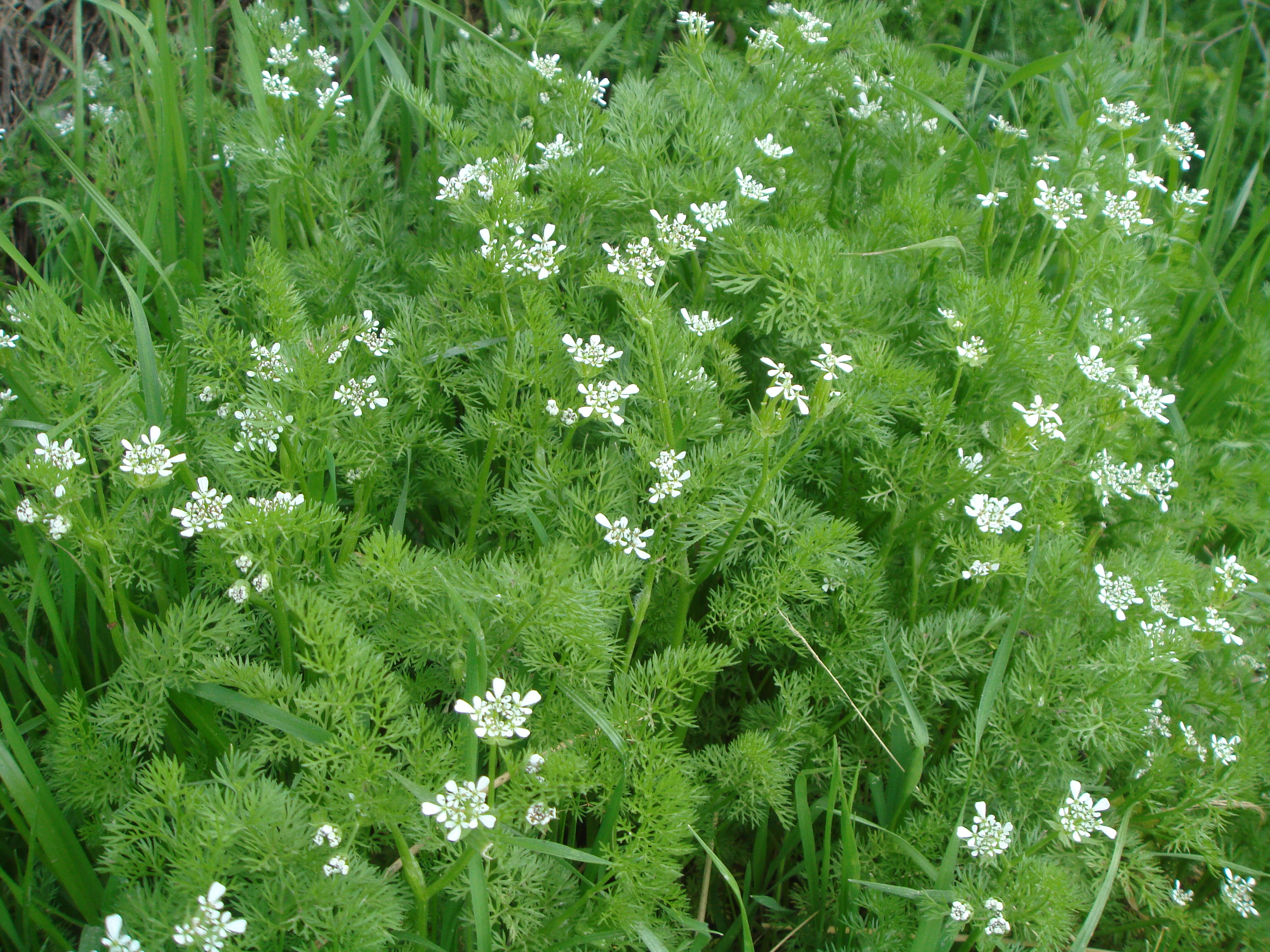 Scandix pecten-veneris, habitus at road side. Note the small size of the plant.